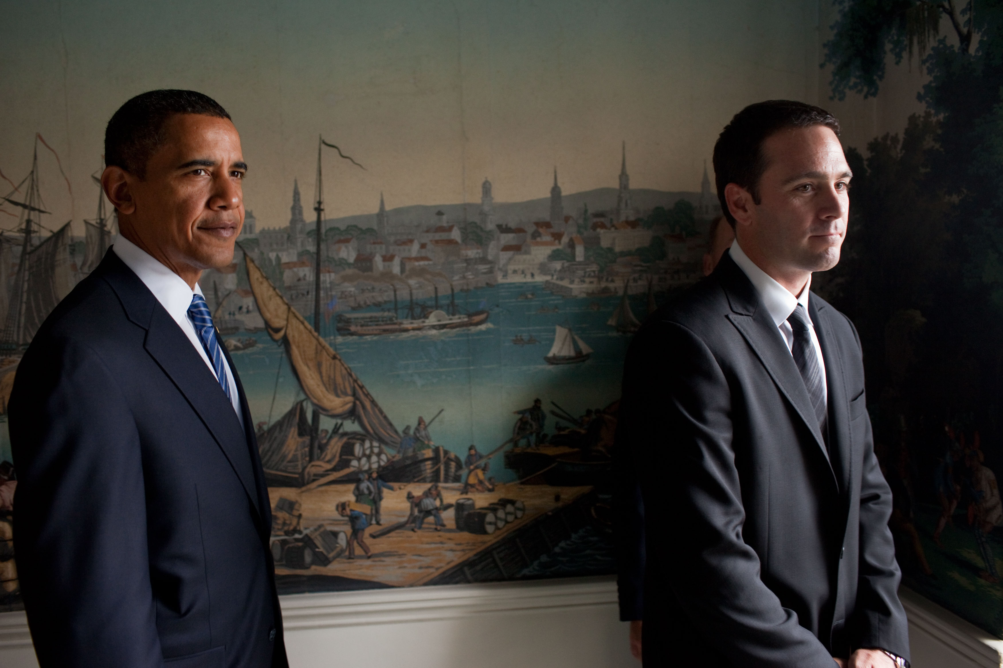 President Barack Obama and NASCAR driver Jimmie Johnson stand in the Diplomatic Reception Room of the White House as they wait to be introduced at a ceremony honoring the 2008 Sprint Cup Champion, Aug. 19, 2009